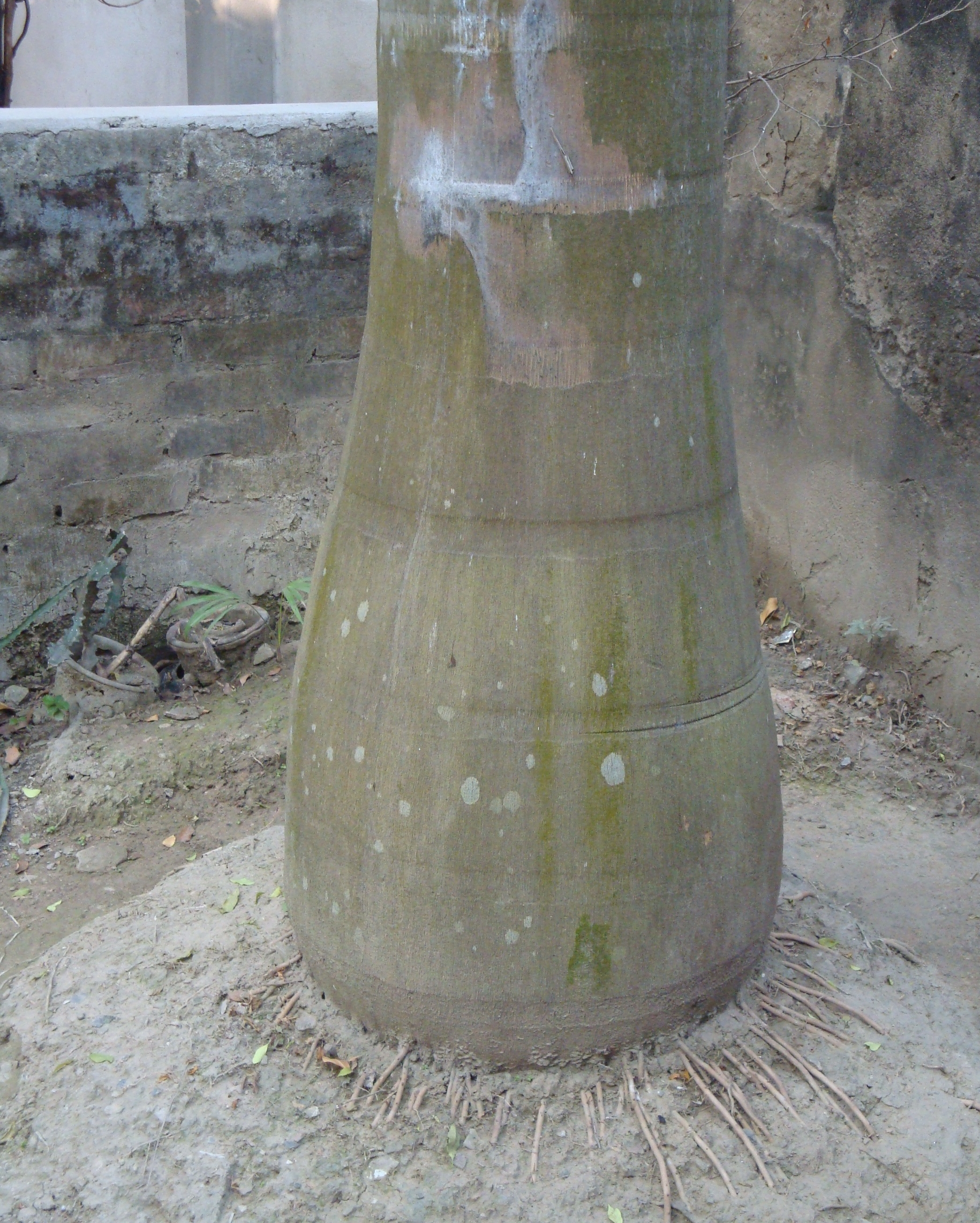 Trunk of a monocot (in this case a Roystonea regia palm)